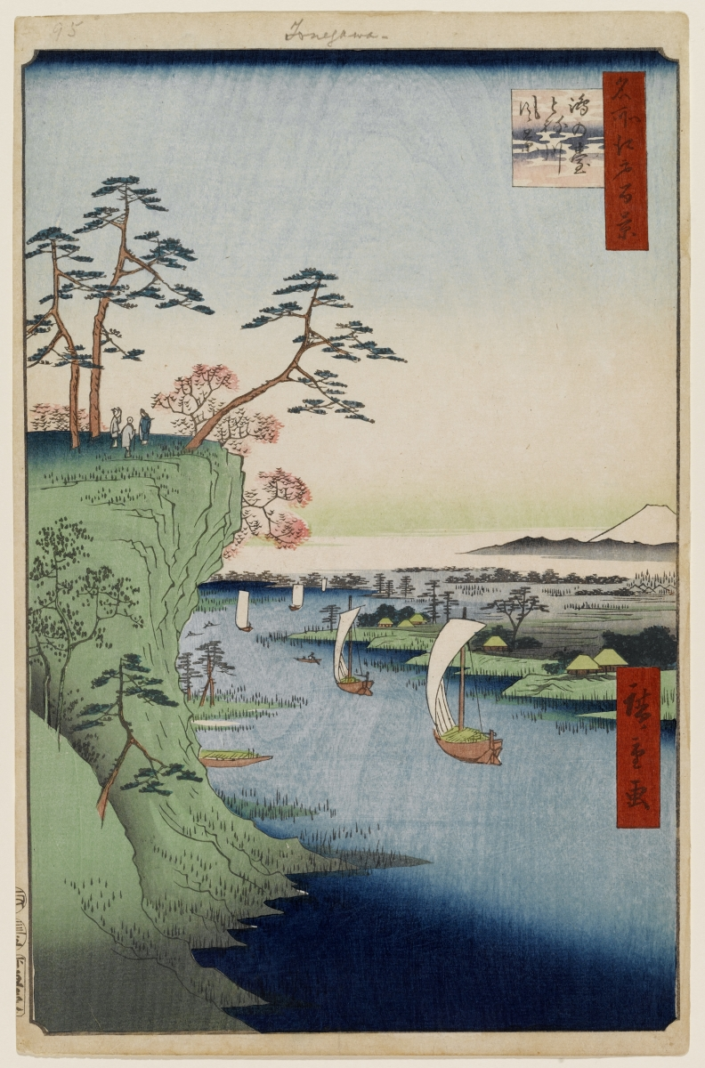 Part of the series One Hundred Famous Views of Edo, no. 095, part 3: Autumn.